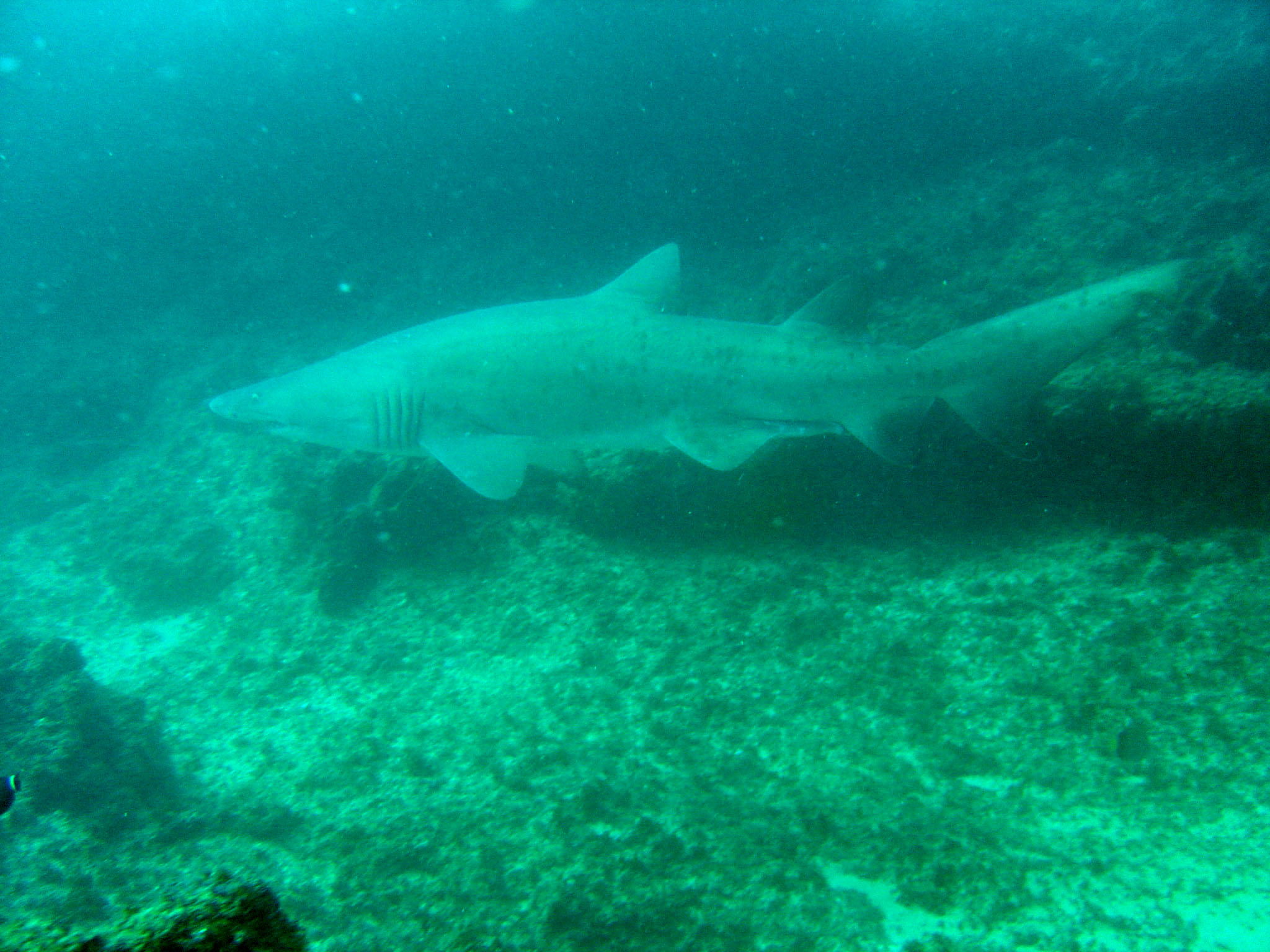 Spotted ragged tooth shark, Aliwal Shoal.